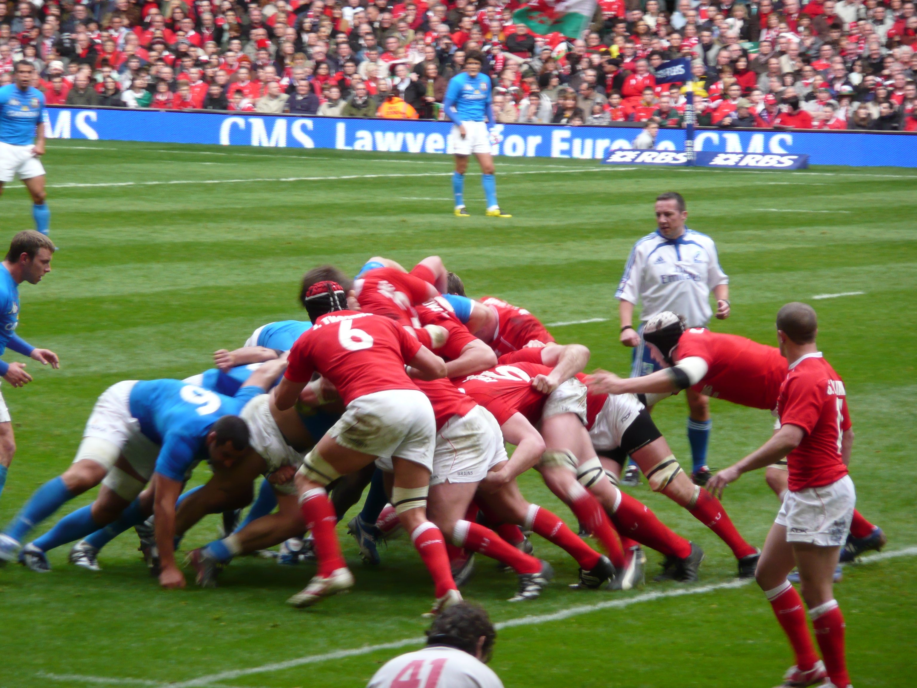 at millennium stadium, cardiff, wales Six Nations scrum